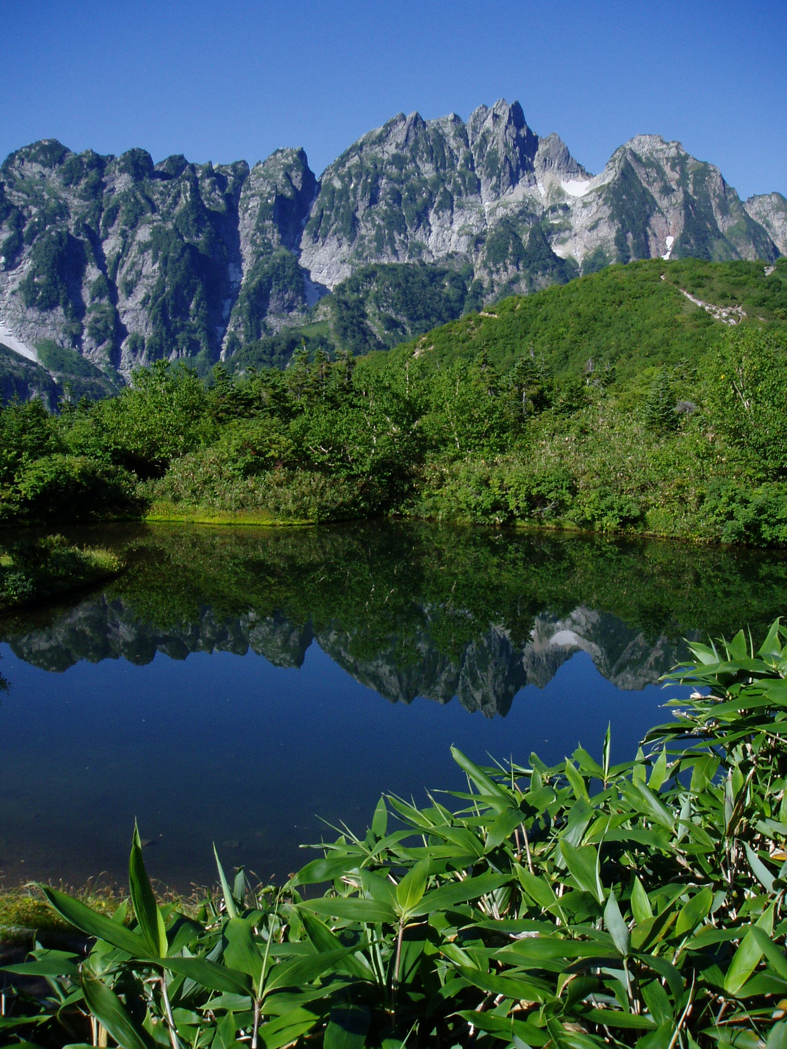 The ENE face of Mount Tsurugi and Yatsumine Craggs seen from Ikenotaira in the Japanese North Alps.